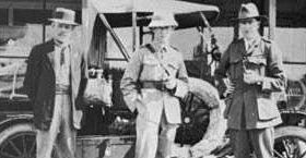 Hudson Fysh, Paul McGinness and George Gorham in Longreach, Australia, at the start of the survey of Northern Australia, in preparation of the Great Race, from England to Sydney. 1919